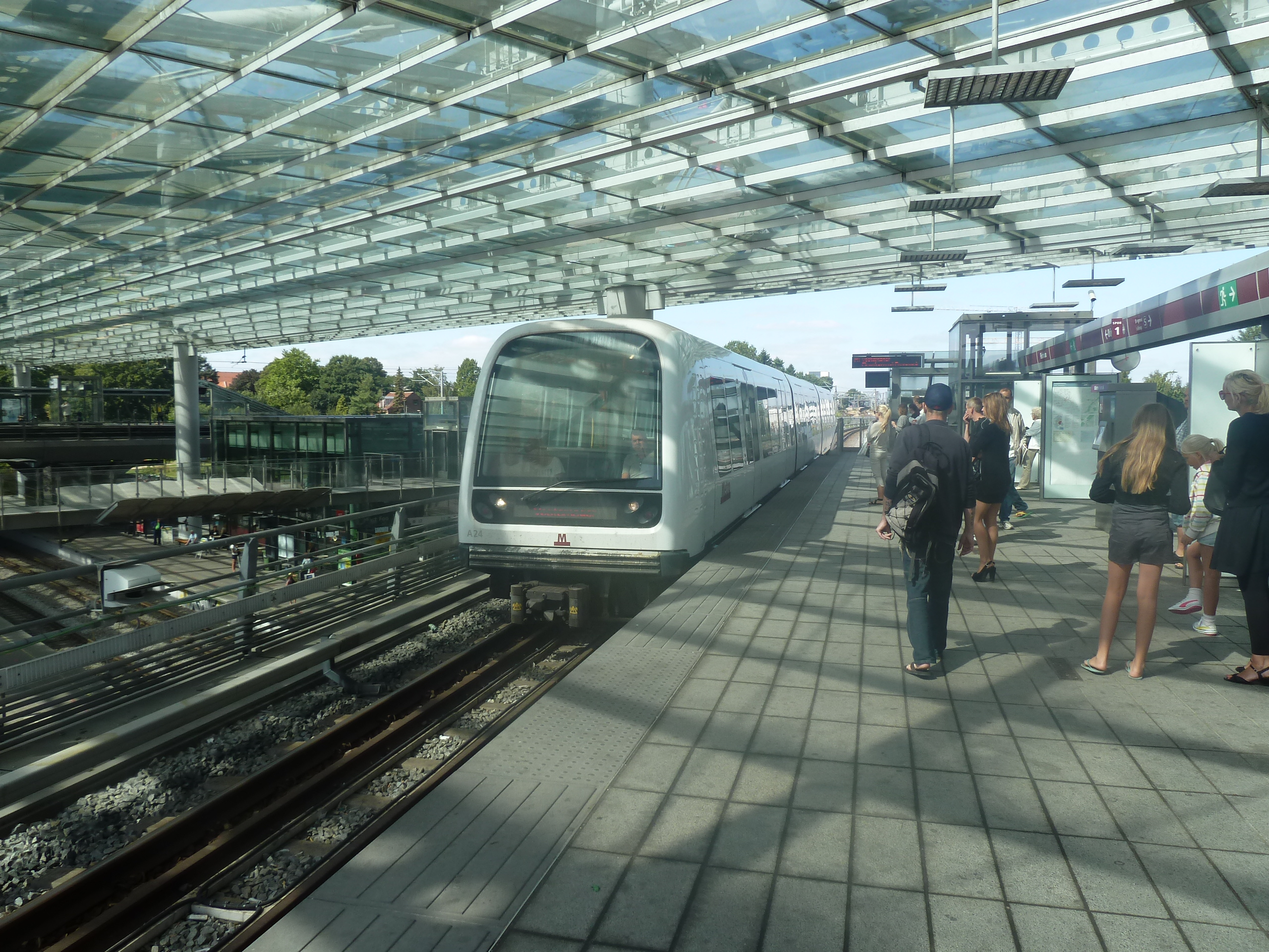 The S-train and Metro station Flintholm in Copenhagen in Denmark.